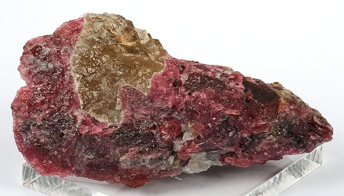 Vlasovite, Gittinsite, Eudialyte Locality: Kipawa alkaline complex, Les Lacs-du-Témiscamingue, Témiscamingue RCM, Abitibi-Témiscamingue, Québec, Canada (Locality at ) Size: 7.5 x 3.9 x 3.3 cm. A spectacular and showy, two-sided specimen of a glassy, translucent, golden-amber vlasovite crystal frozen in glassy, cherry-red eudialyte matrix. A white rind of gittinsite surrounds the vlasovite. Vlasovite and gittinsite are very rare zirconium silicates, found only in a few alkaline massifs worldwide. There is even a 1.2 cm gem section of eudialyte on this piece. The Kipawa Complex is the Type Locality for gittinsite. This is a superb example. Vlasovite fluoresces a moderate yellow under UV illumination.